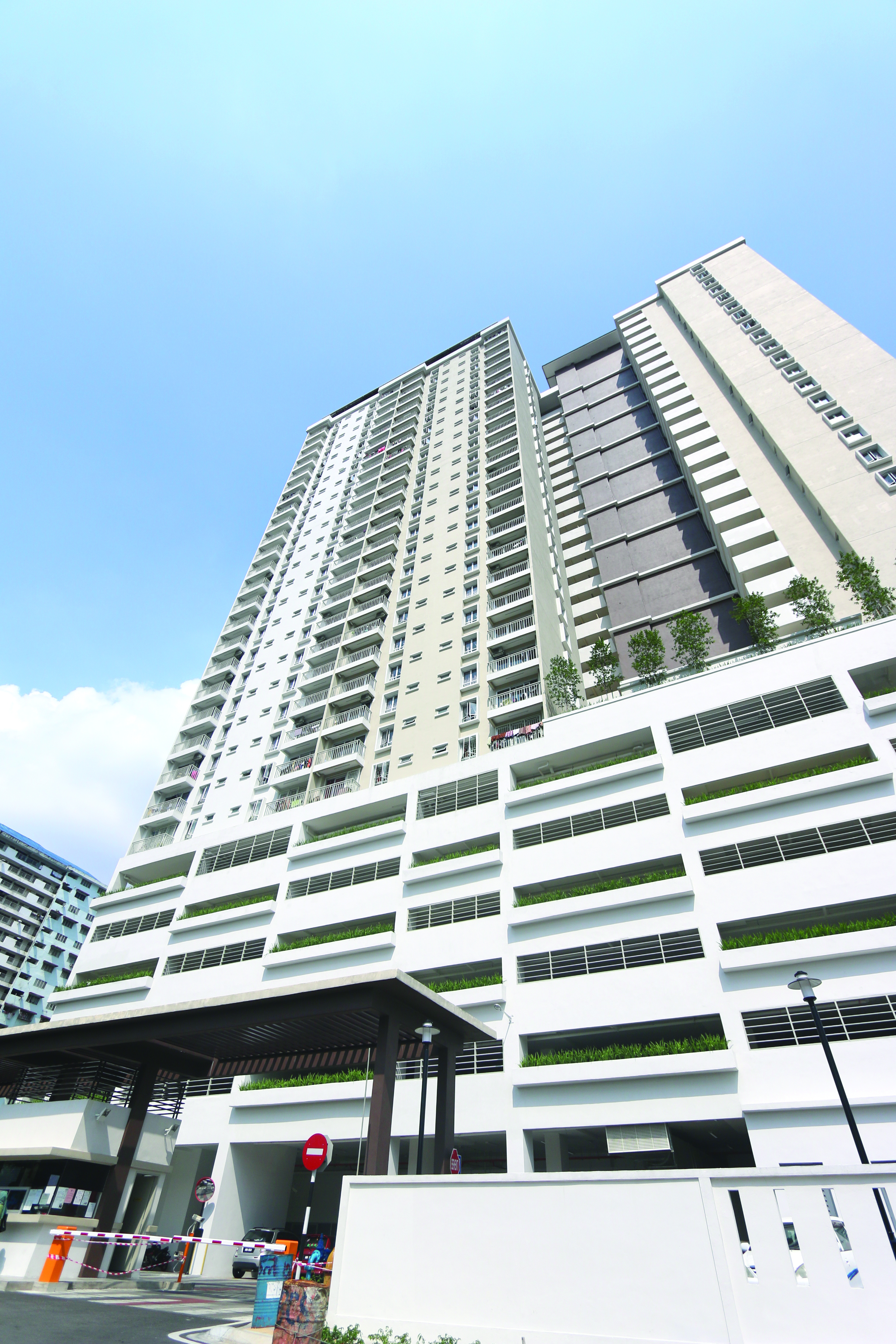 Teratai Residency, KL.